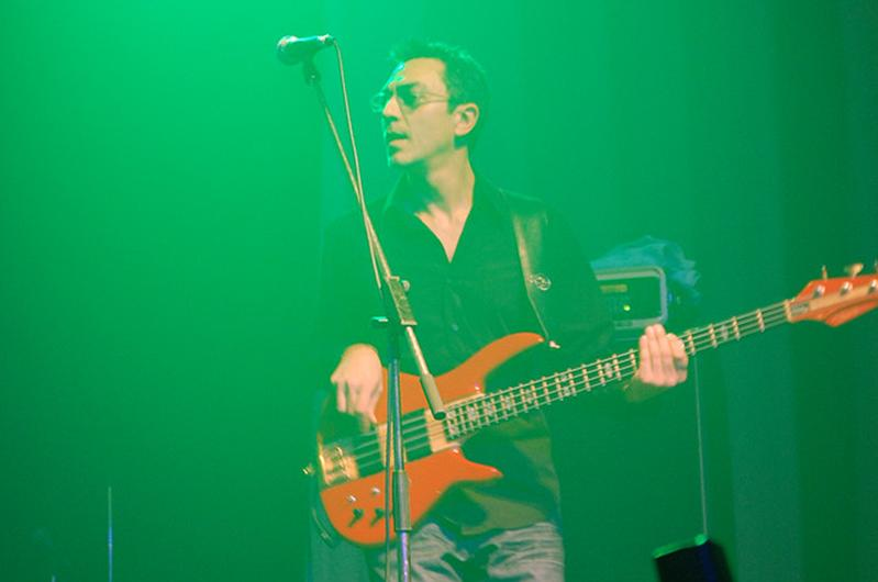 Photography of Massimo Bottini of Gabin band